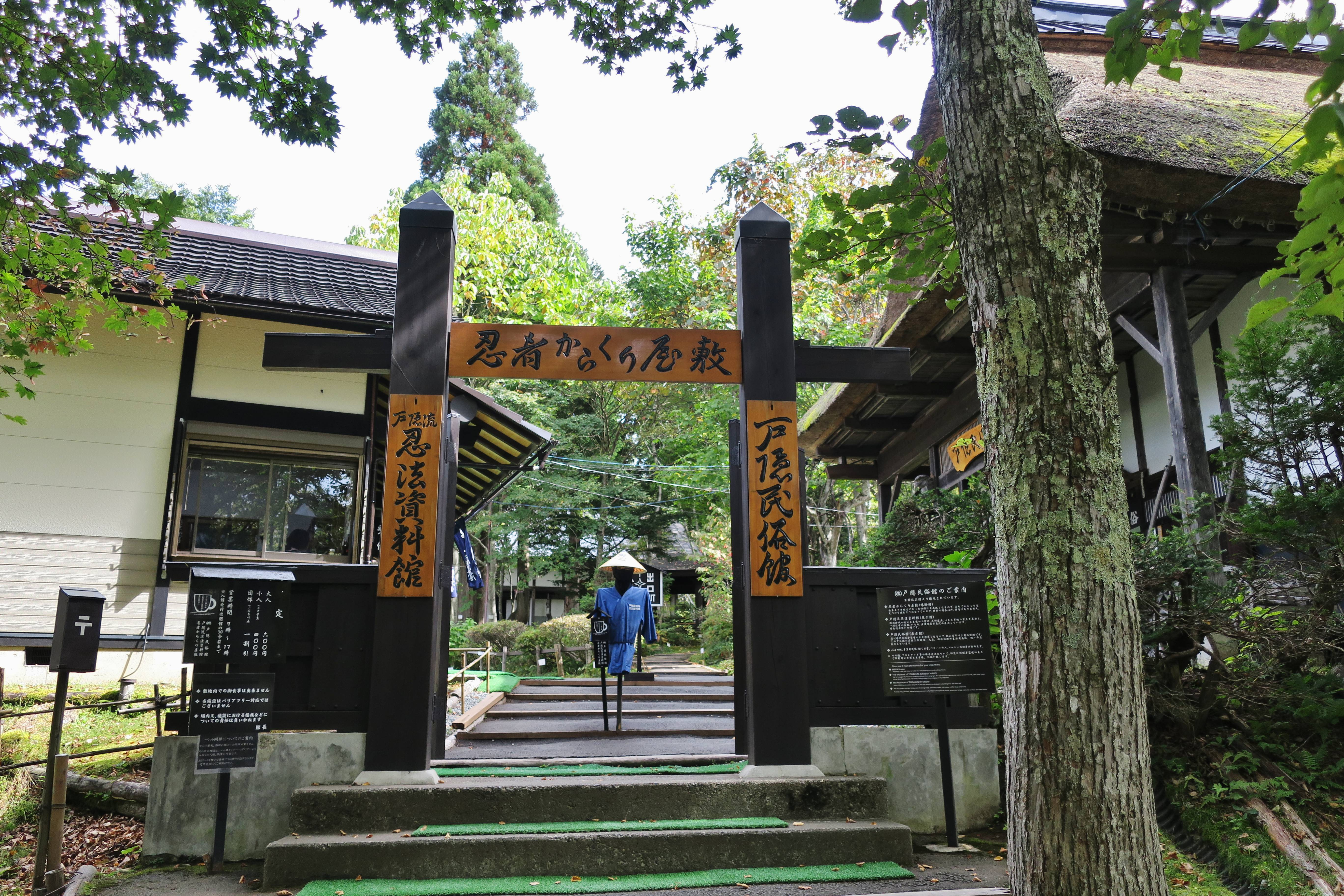 Togakushi Folk Museum, Togakushi Ninja Museum, Ninja Trick Mansion (Nagano, Nagano).